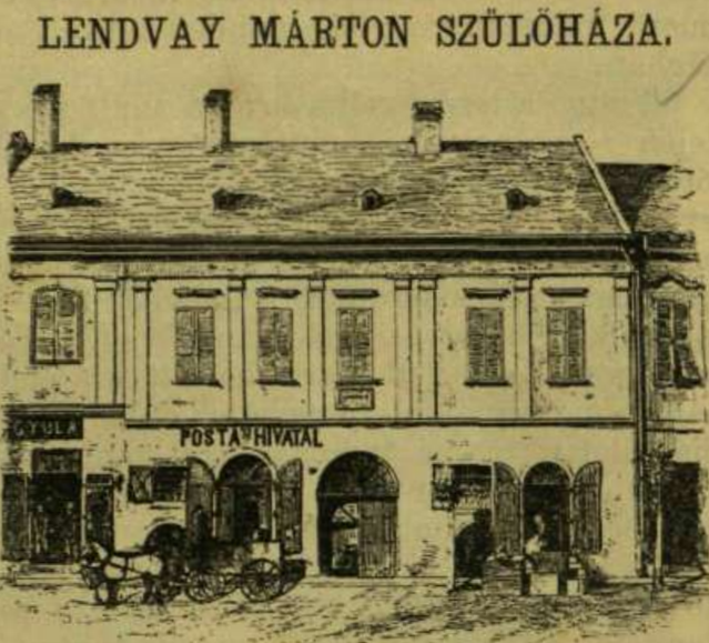 The house where Lendvay Márton was born